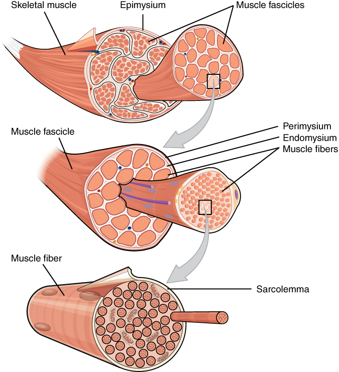 Version 8.25 from the Textbook OpenStax Anatomy and Physiology Published May 18, 2016